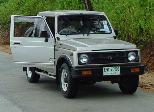 Thai-built Suzuki Caribian Sporty, an extended cab LWB pickup version of the venerable Samurai.